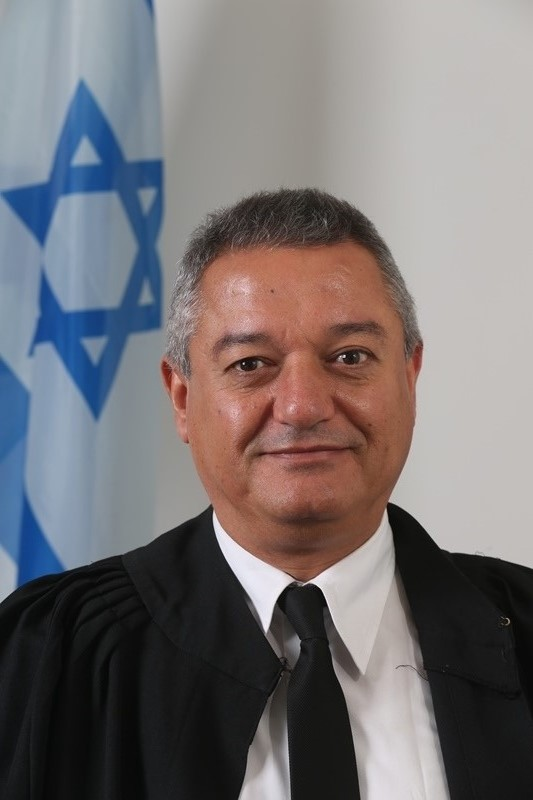 CHALED KABUB